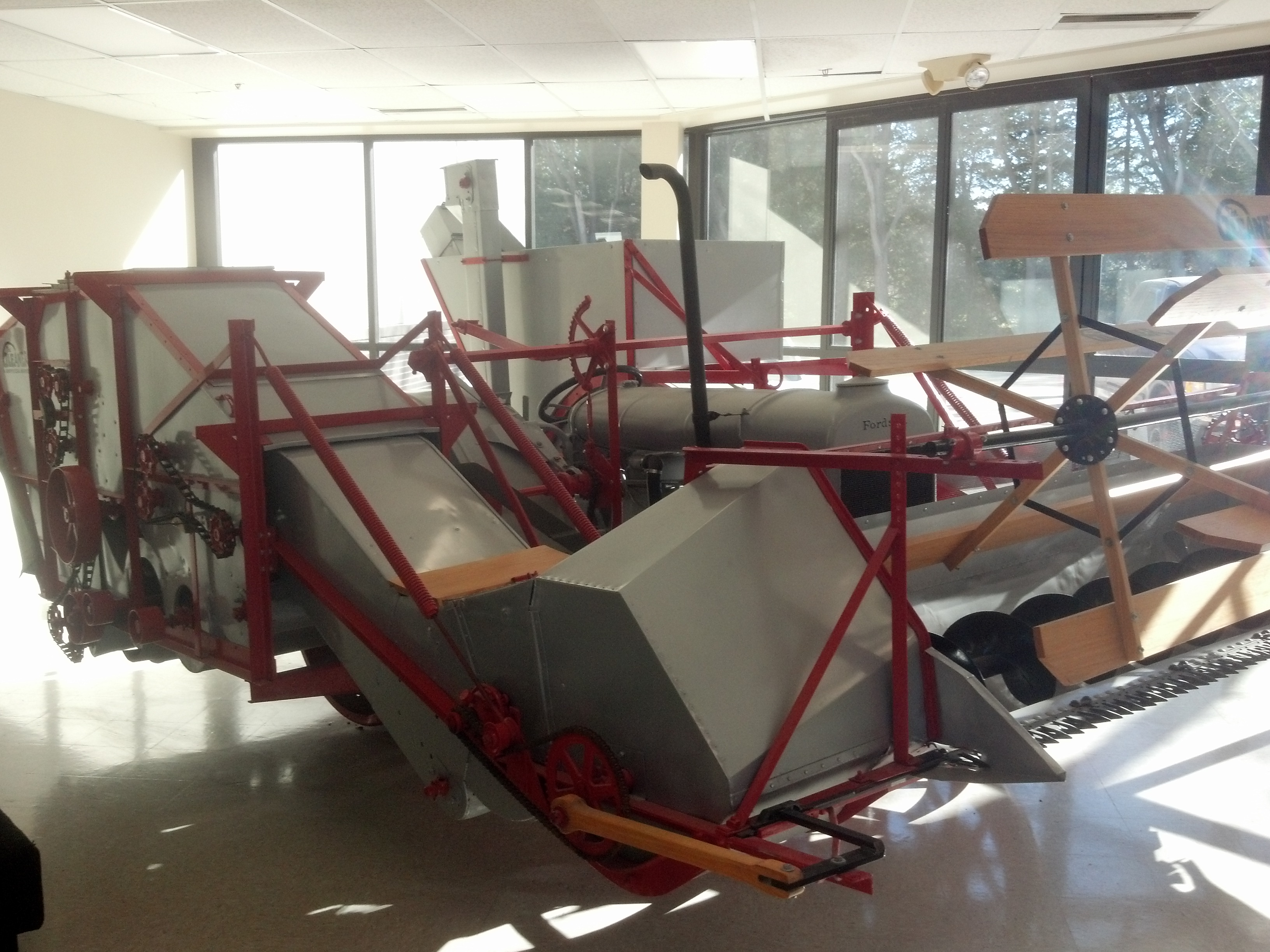 Gleaner Combine located in Heritage Hall at AGCO Hesston manufacturing facility